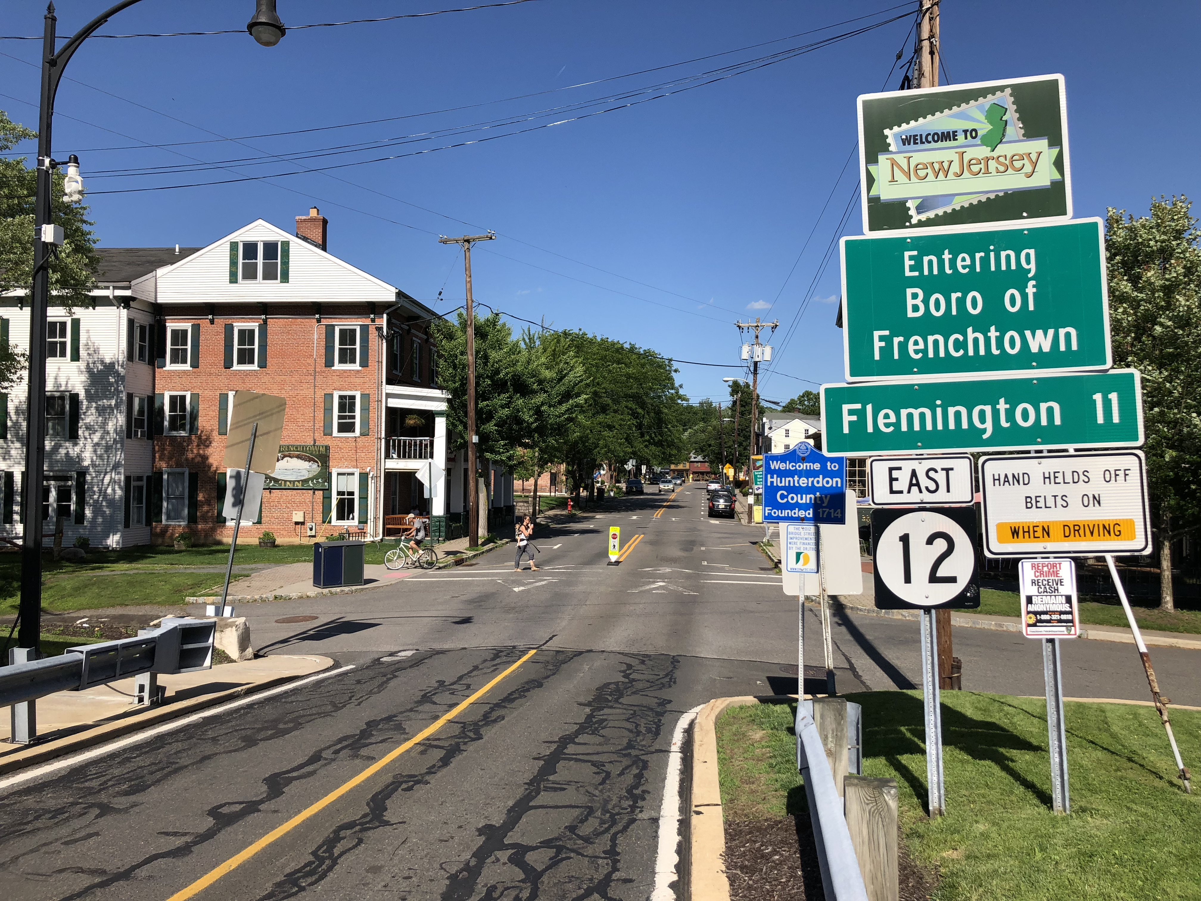 View east along New Jersey State Route 12 (Bridge Street) just east of the Uhlerstown-Frenchtown Bridge in Frenchtown, Hunterdon County, New Jersey